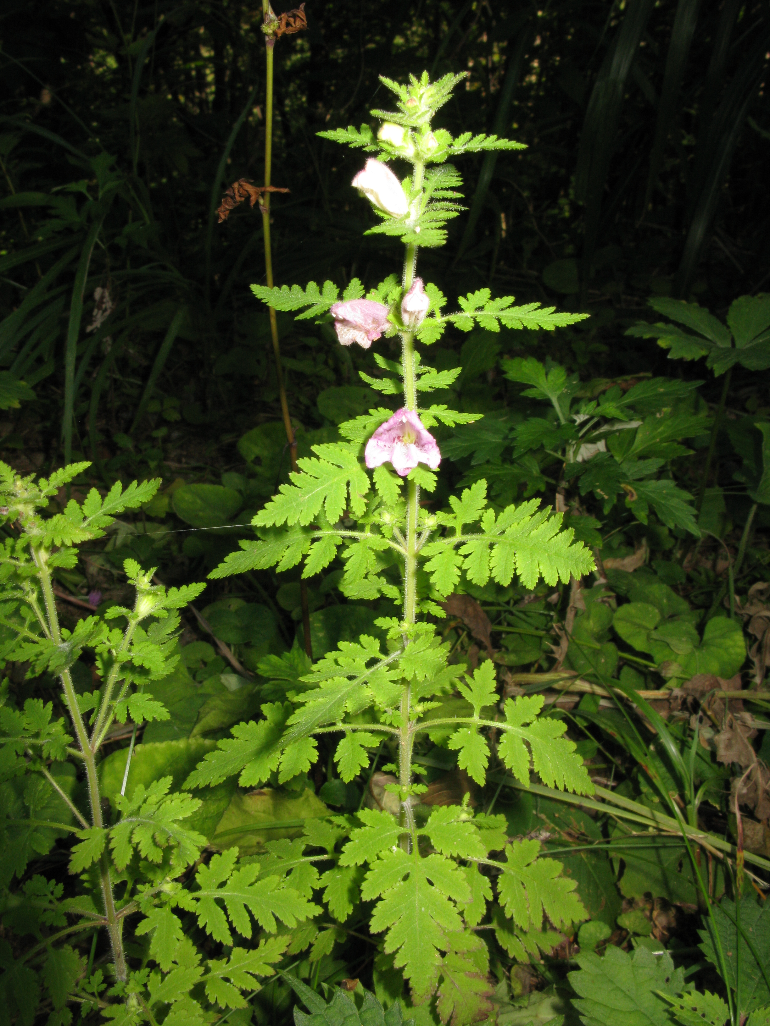 Phtheirospermum japonicum, Fukushima pref., Japan